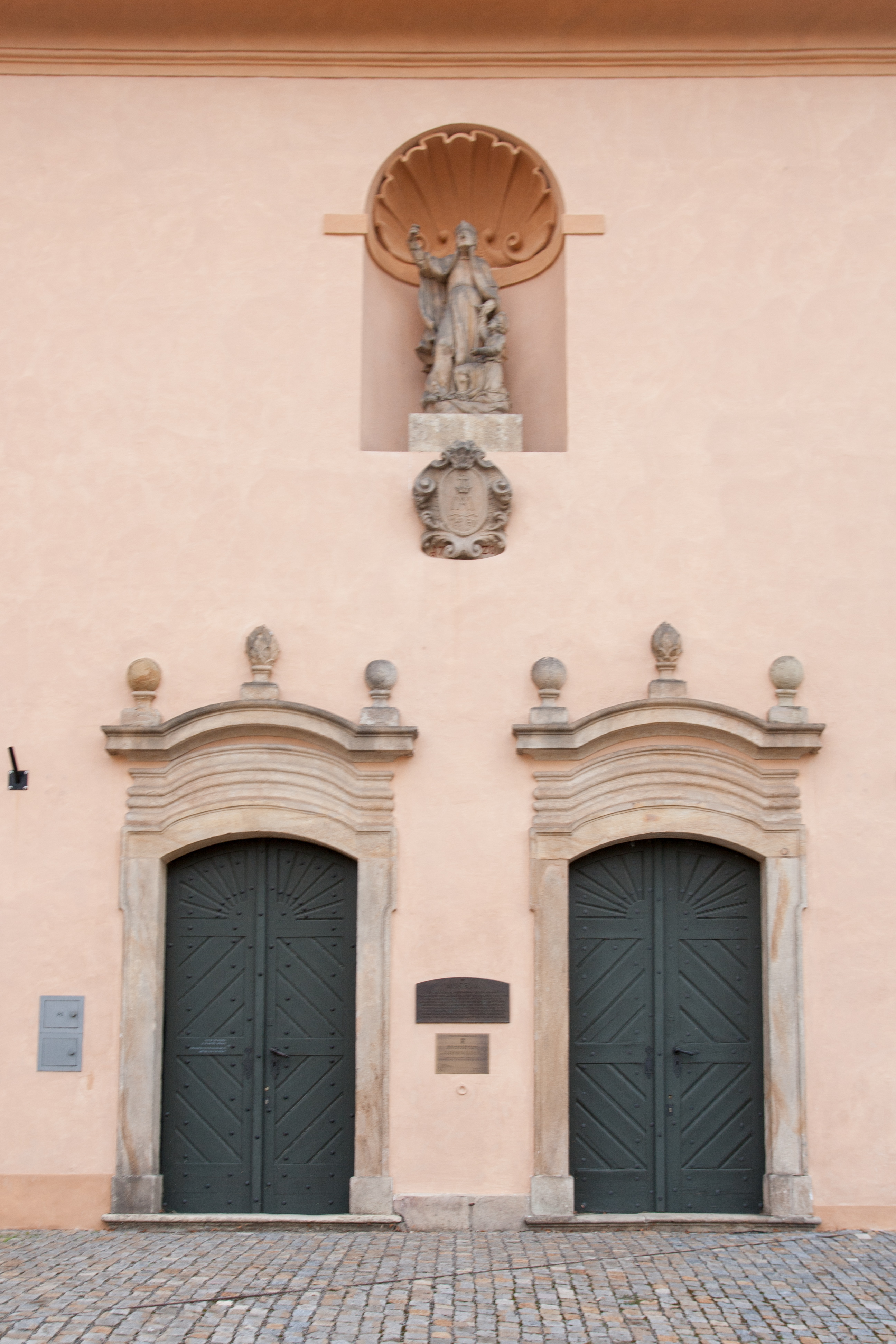 Former Piarists' gymnasium, now regional museum in Litomyšl, Svitavy District, Pardubice Region, Czechia This image was acquired during the event Wikiměsto Litomyšl.